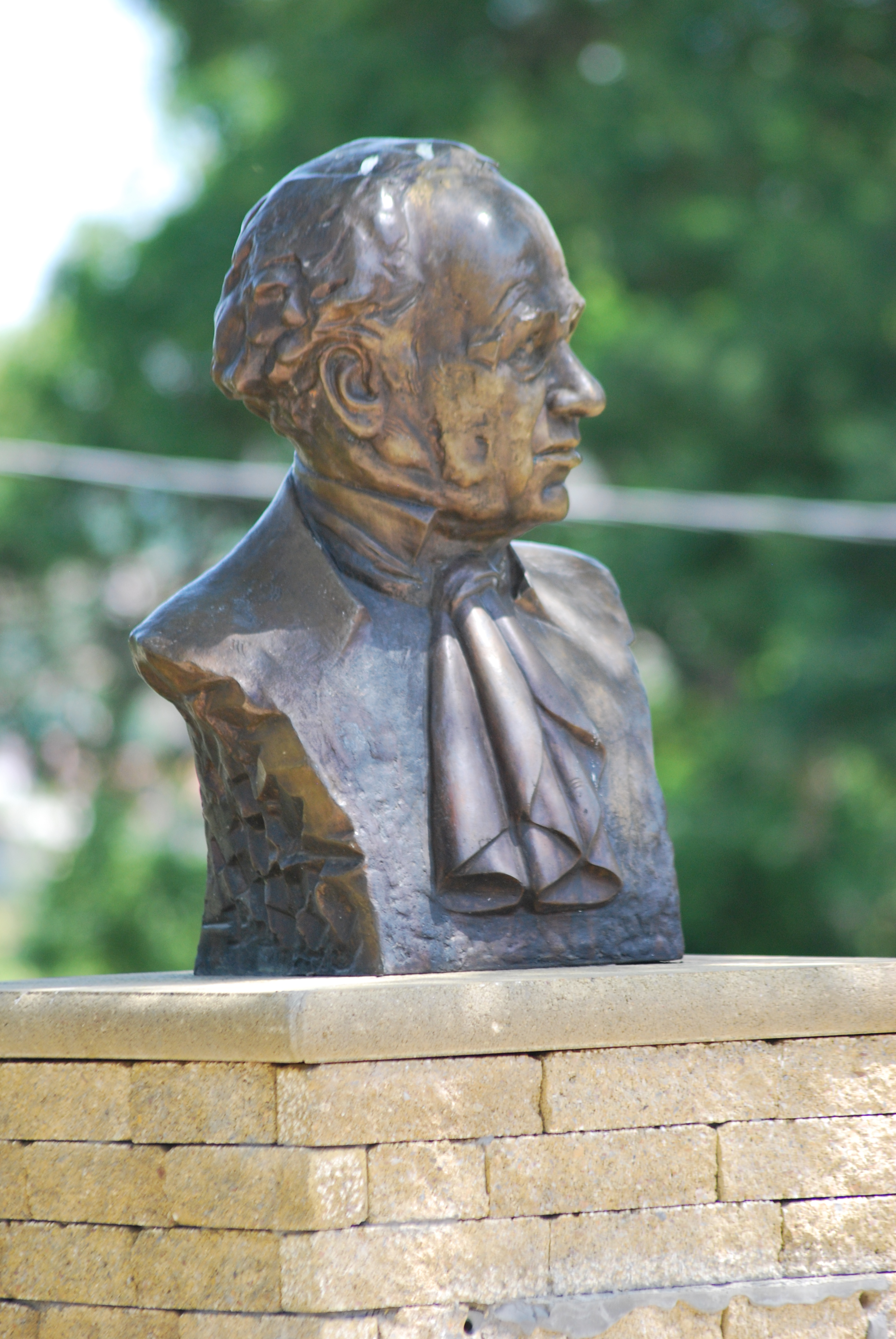 This image is uploaded as part of the picture contest Wiki Loves Cultural Heritage in Macedonia 2013. English | македонски | +/− Споменик на Петре Прличк во Велес